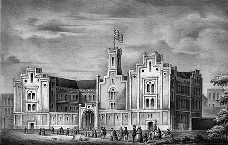 The Auswandererhaus (“Emigrant house”) in Bremerhaven, Germany, built by Heinrich Müller in 1849. Lithograph by W. Casten from the year 1850.